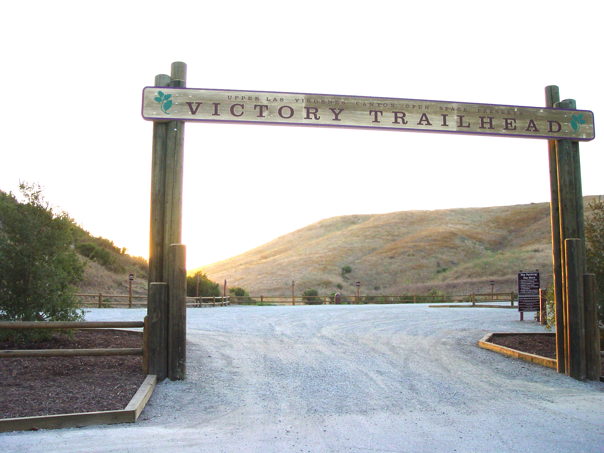 The Victory Gateway for trail heads in the Upper Las Virgenes Canyon Open Space Preserve. At the end of Victory Blvd. in West Hills, western San Fernando Valley of Los Angeles, Southern California. I took this picture on August 10th, 2005 and release it under the GFDL.